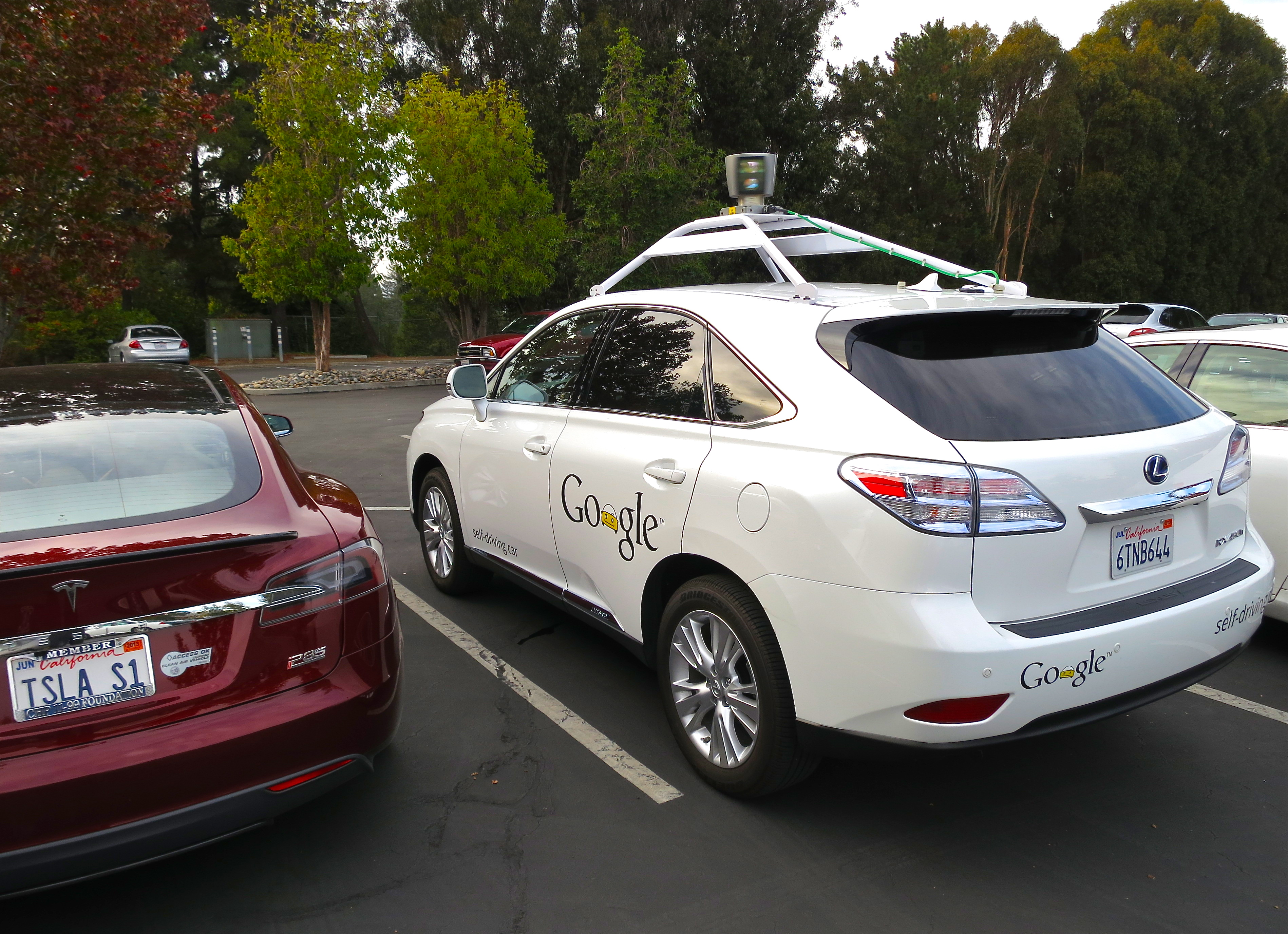 Lexus RX450h retrofitted by Google for its driverless car fleet. At the left side is parked a Tesla Model S electric car.